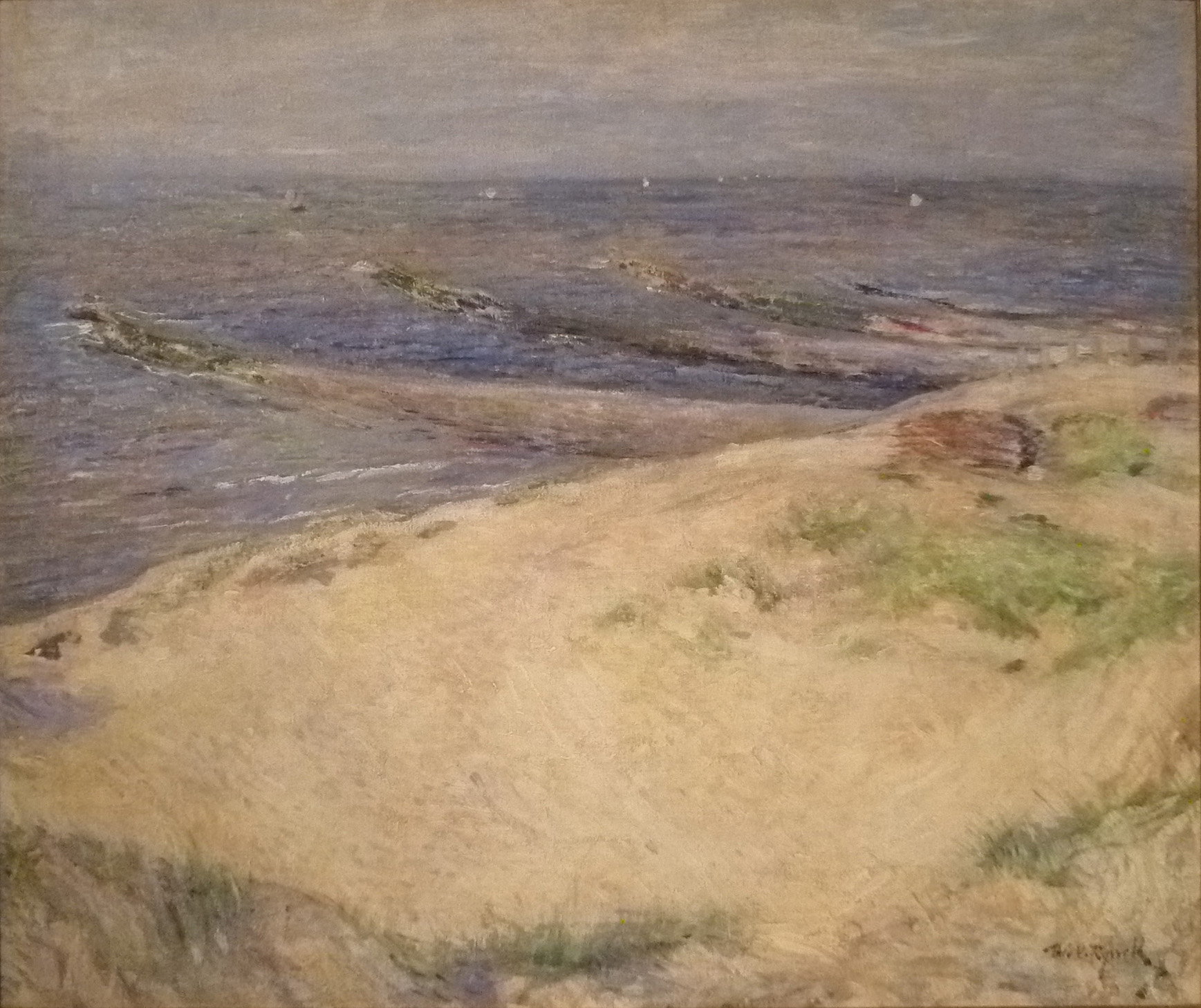 "Four Breakwaters" (Heyst); oil on canvas ( 54.6 x 64.2 cm) by the Belgian painter Théo van Rysselberghe; private collection